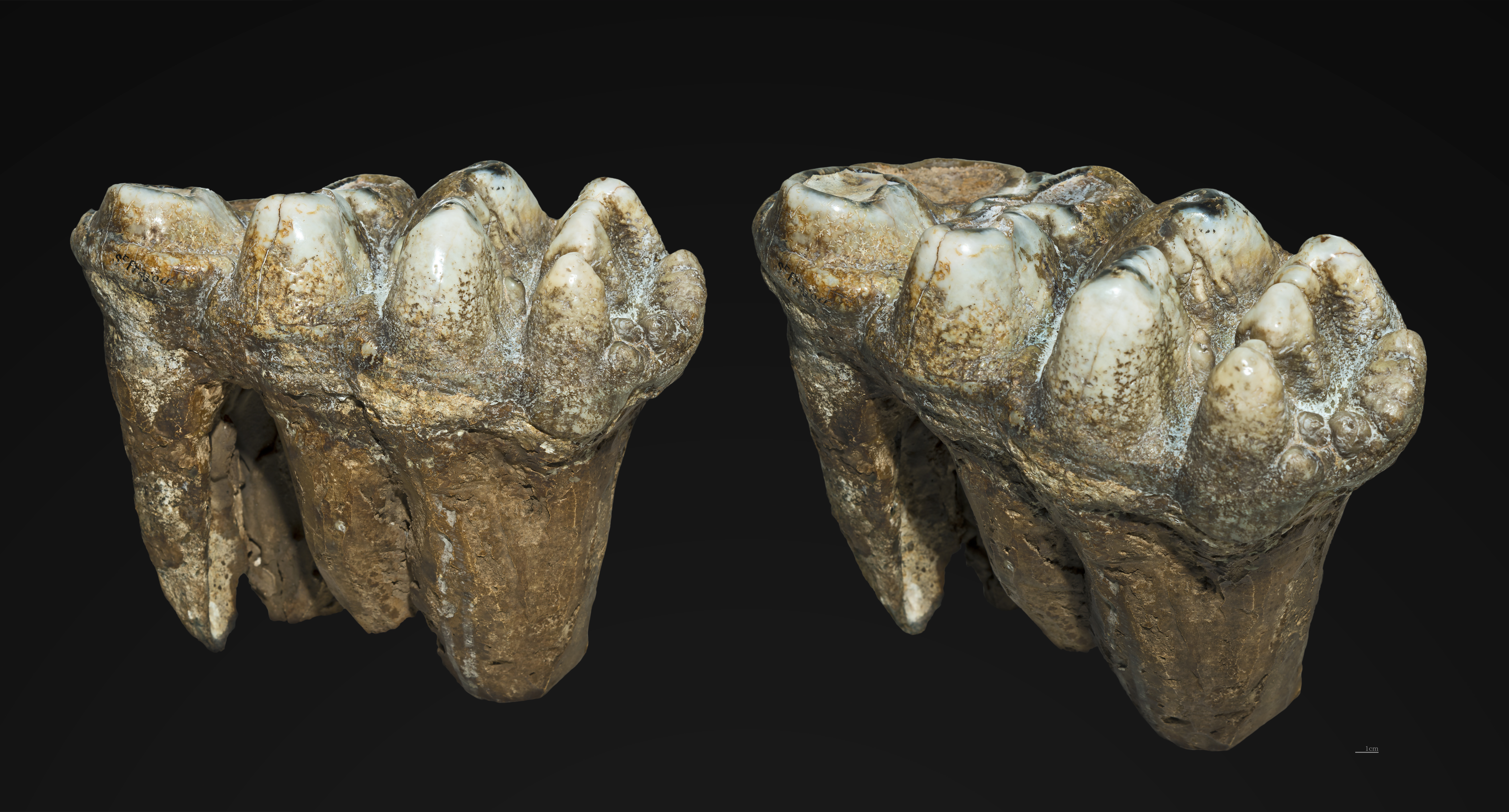 Zygolophodon pyrenaicus molar - Two views of the same specimen Stage : Miocene (23.03 to 5.332 million years Before the Current Era) Locality : Saint-Frajou, Haute-Garonne, France Size : 20 x 17 x 10 cm